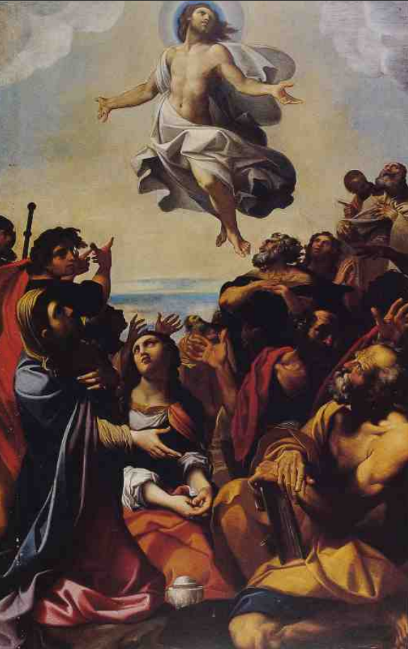 The Ascension